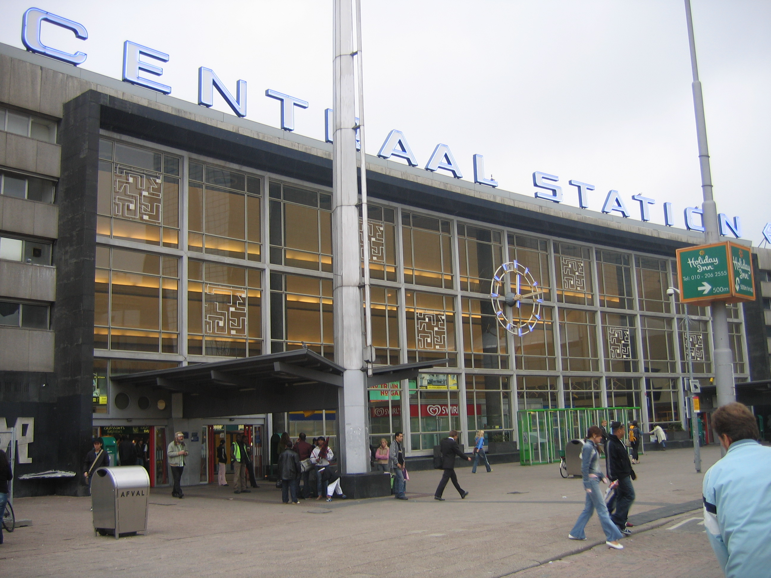 Rotterdam Central Station, Former Rotterdam Centraal Station, Sybold van Ravesteyn architect, built between 1950-1957 and succeeded in 2008 by a new building. The Van Ravesteyn building replaced Delfsche Poort station, near the Hofplein, which was practically destroyed during the Rotterdam Blitz.